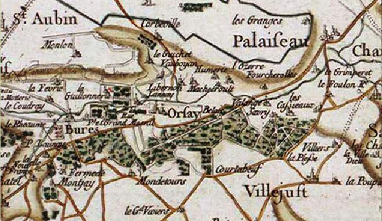 Carte d'Orsay selon Cassini